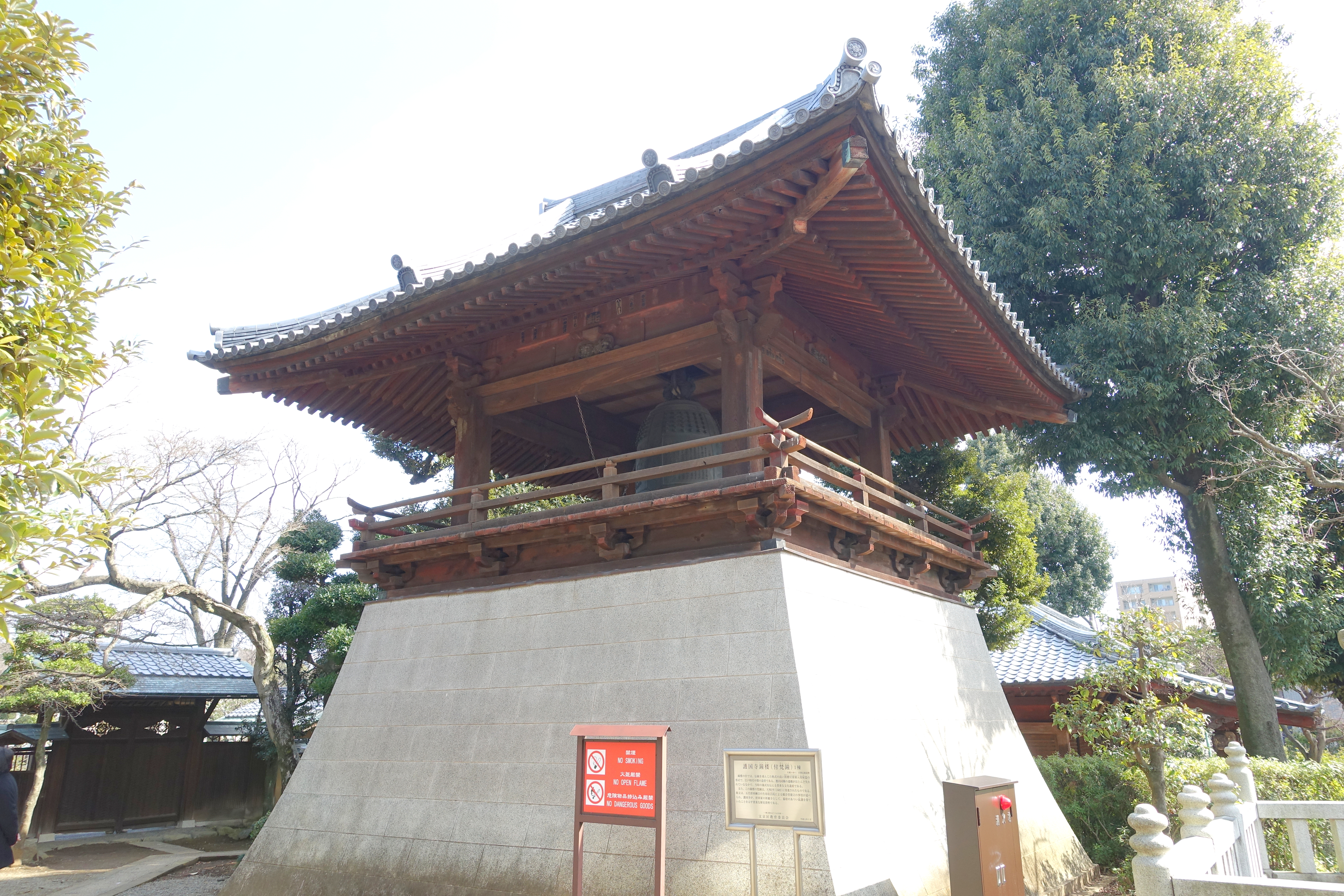 Gokoku-ji - Bunkyo, Tokyo, Japan.